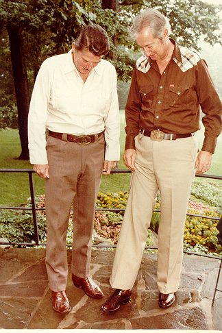 Congressman Ralph Hall compares cowboy boots with President Ronald Reagan at Camp David.